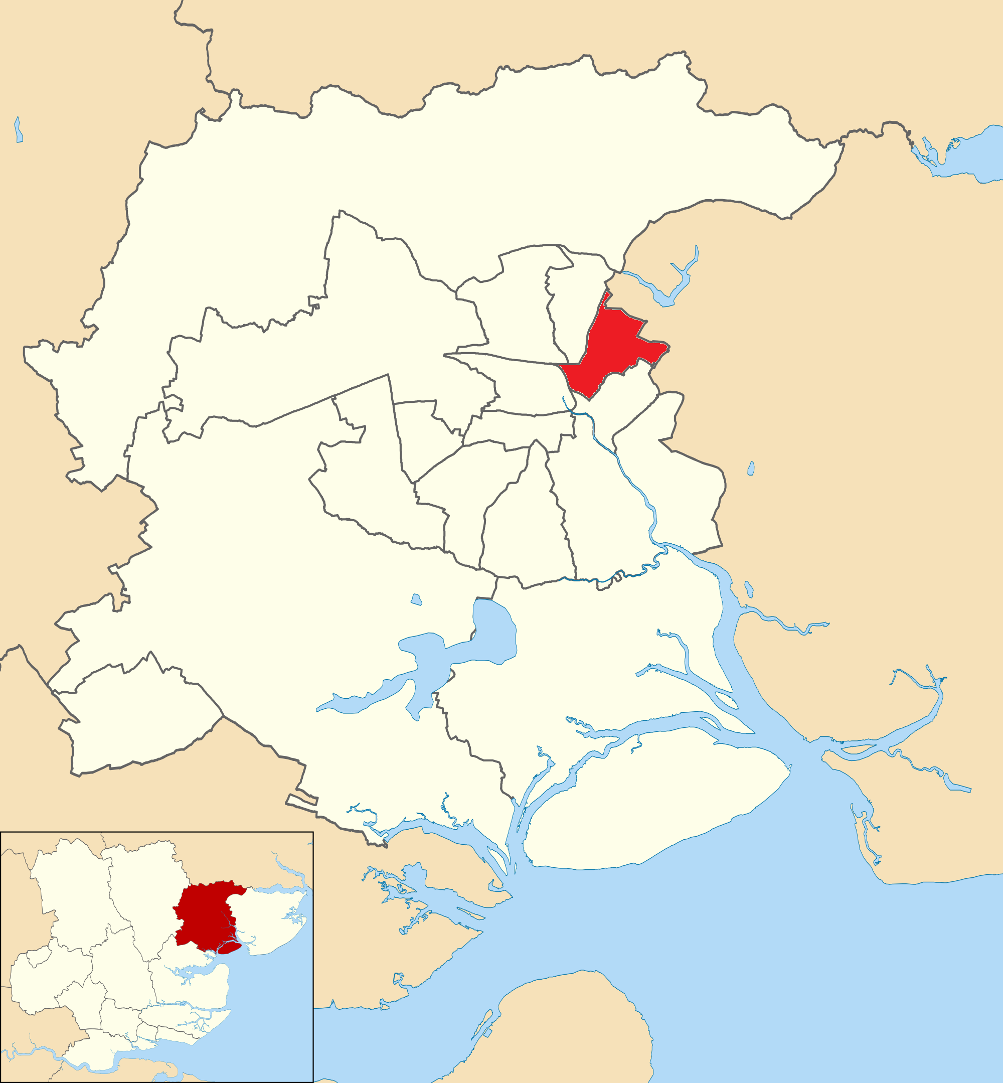 St. Anne's & St. John's ward highlighted within Colchester Borough